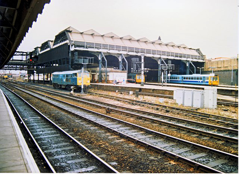 Manchester Victoria - east end 1988 The portion of the station rebuilt and hidden beneath the MEN Arena.